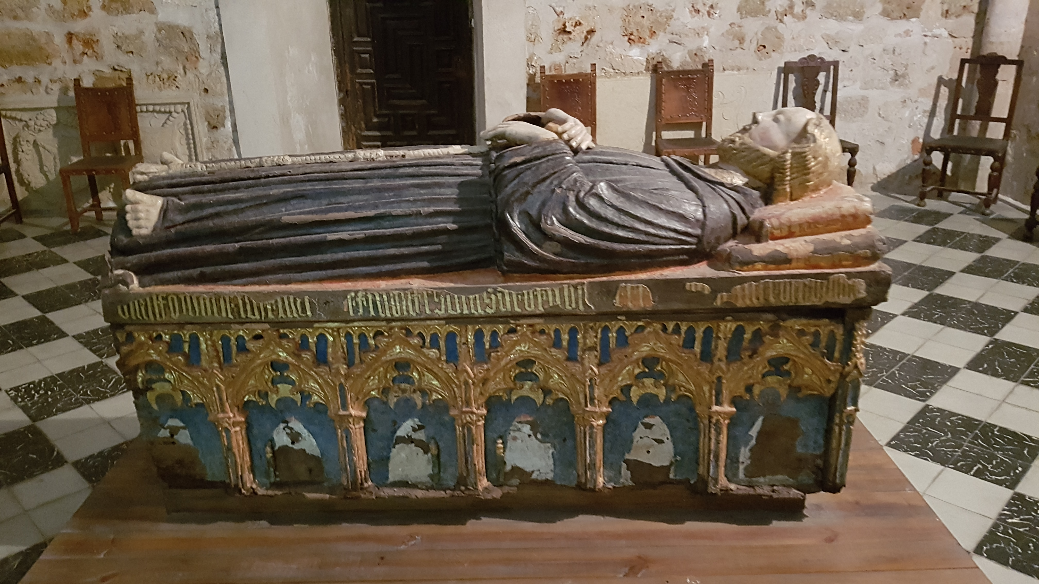 Polychrome quite sarcophagi of Tello of Castille in convent of Saint Francis in Palencia (Castile and León, Spain)